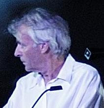 Rick Wright / Pink Floyd